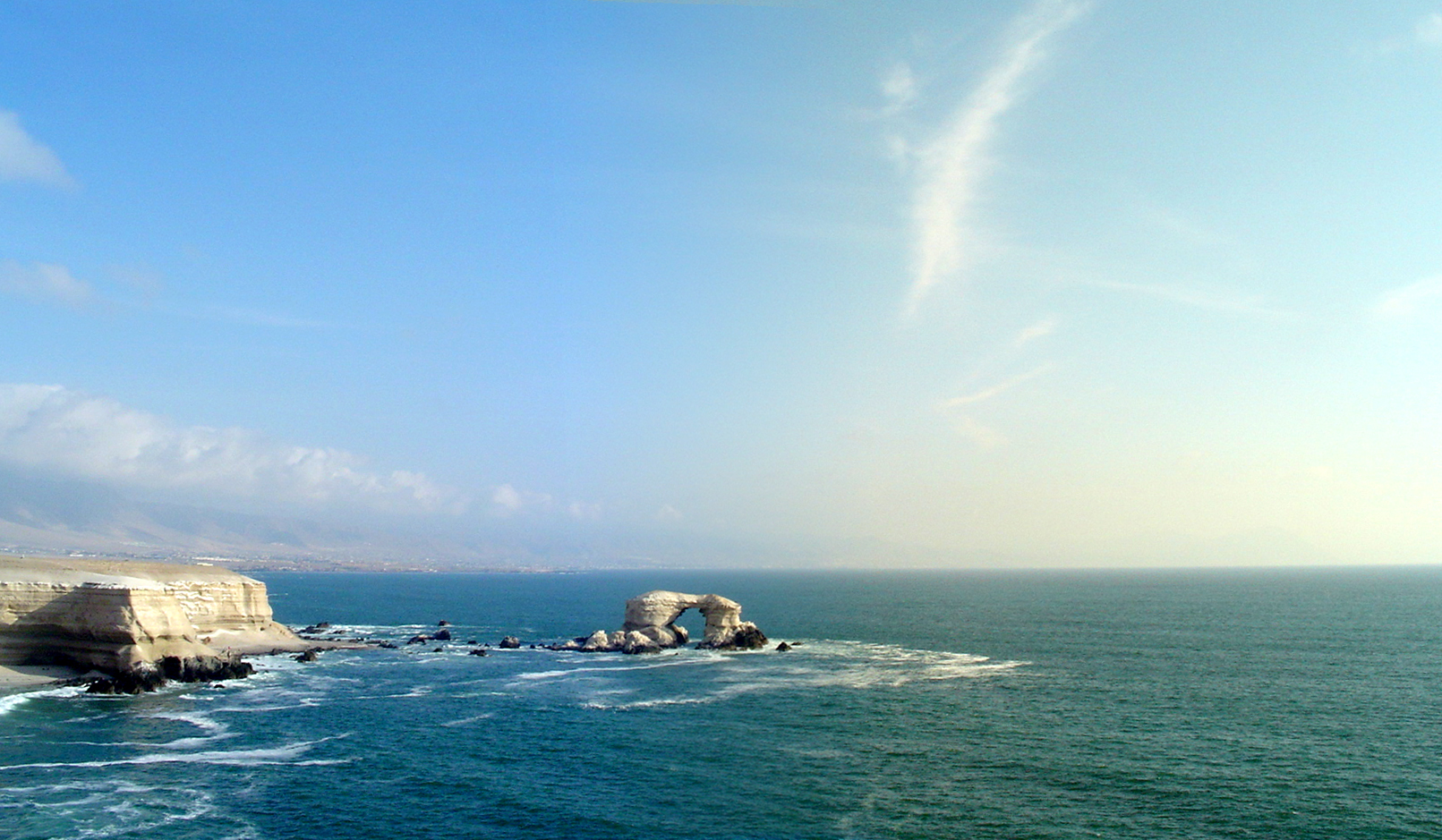 La Portada Natural Monument. Antofagasta, Chile.